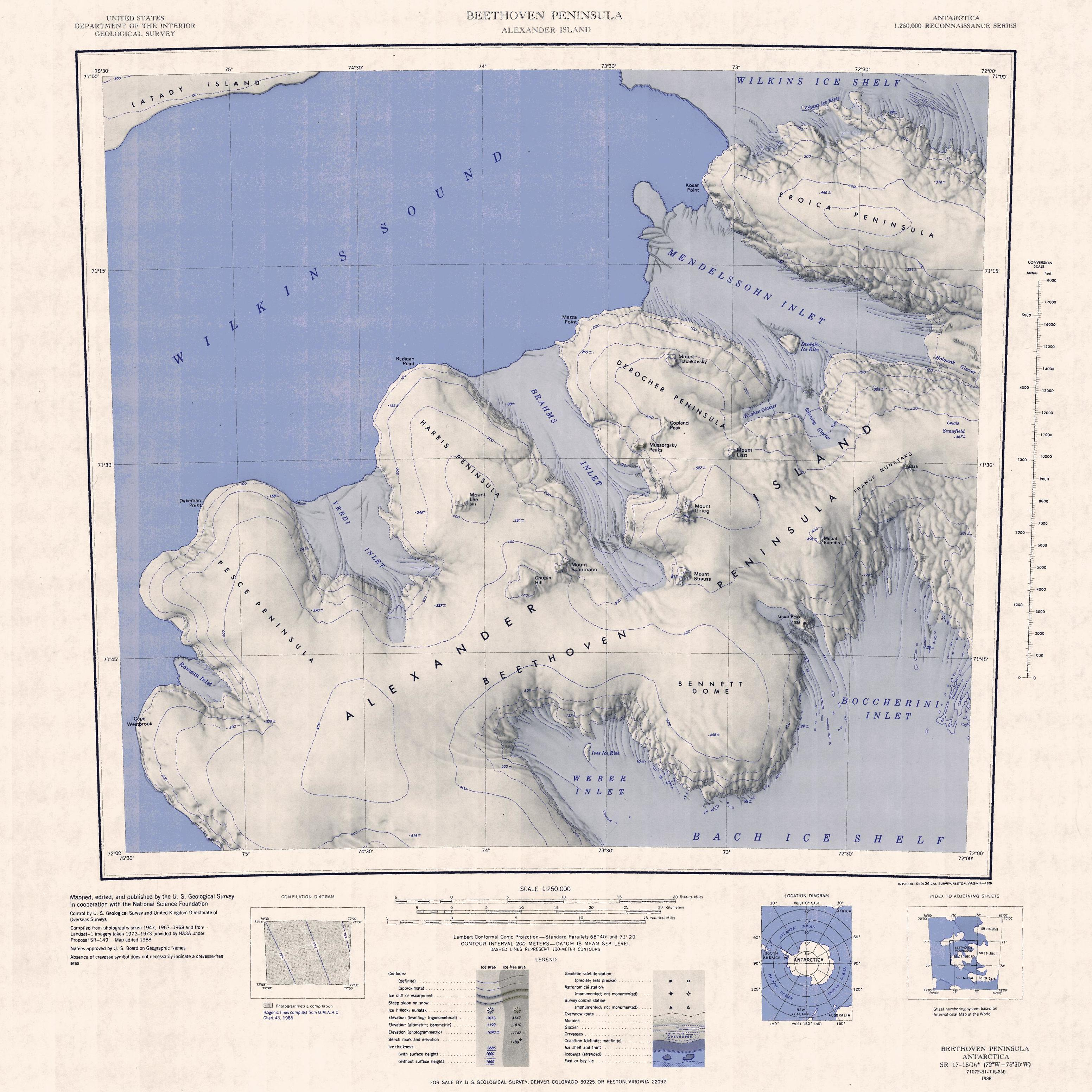 1:250,000-scale topographic reconnaissance map of the Beethoven Peninsula area of Alexander Island from 72°-75°30'W to 71°-72°S in Antarctica. Mapped, edited and published by the U.S. Geological Survey in cooperation with the National Science Foundation.